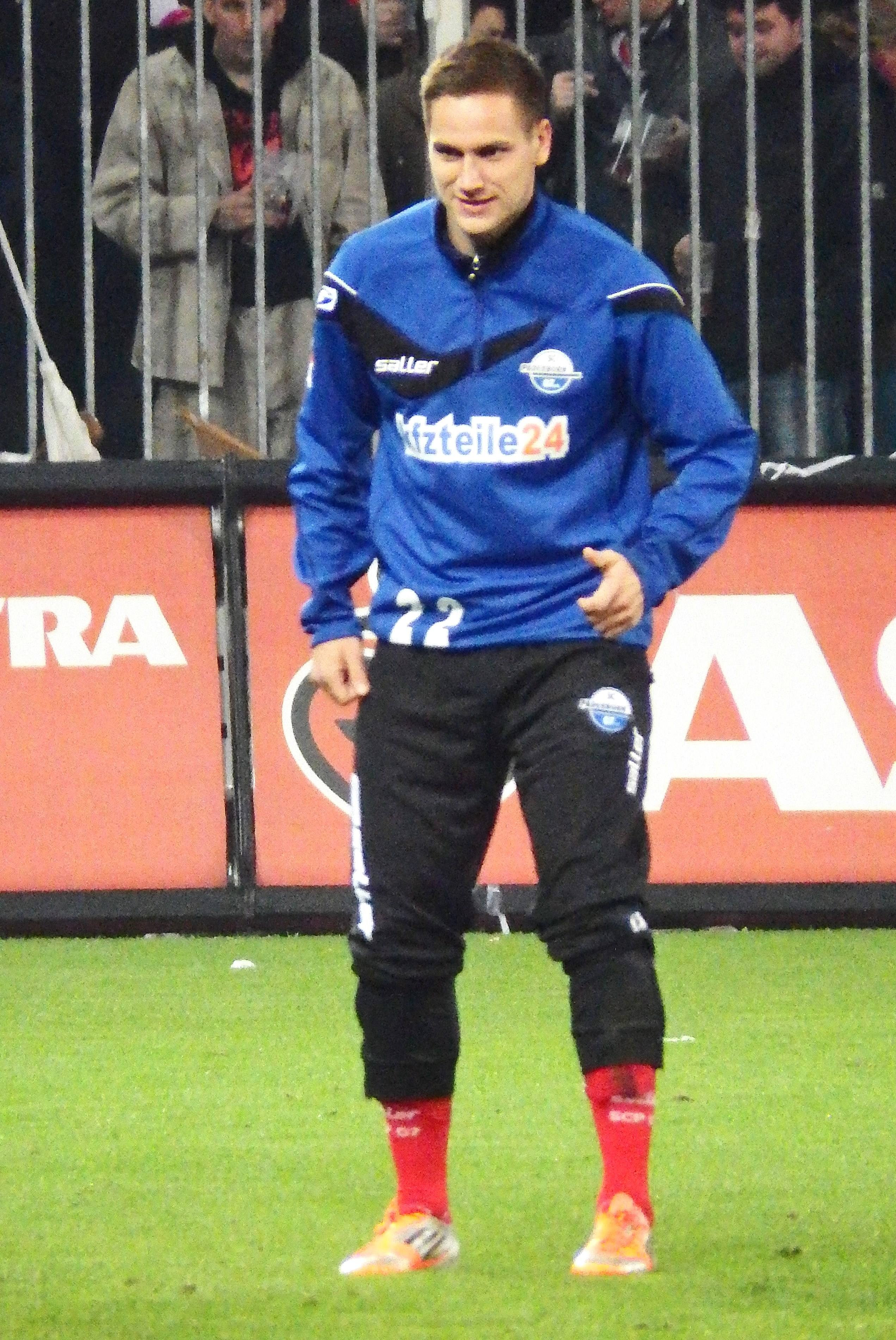 Michael Heinloth as Player of SC Paderborn